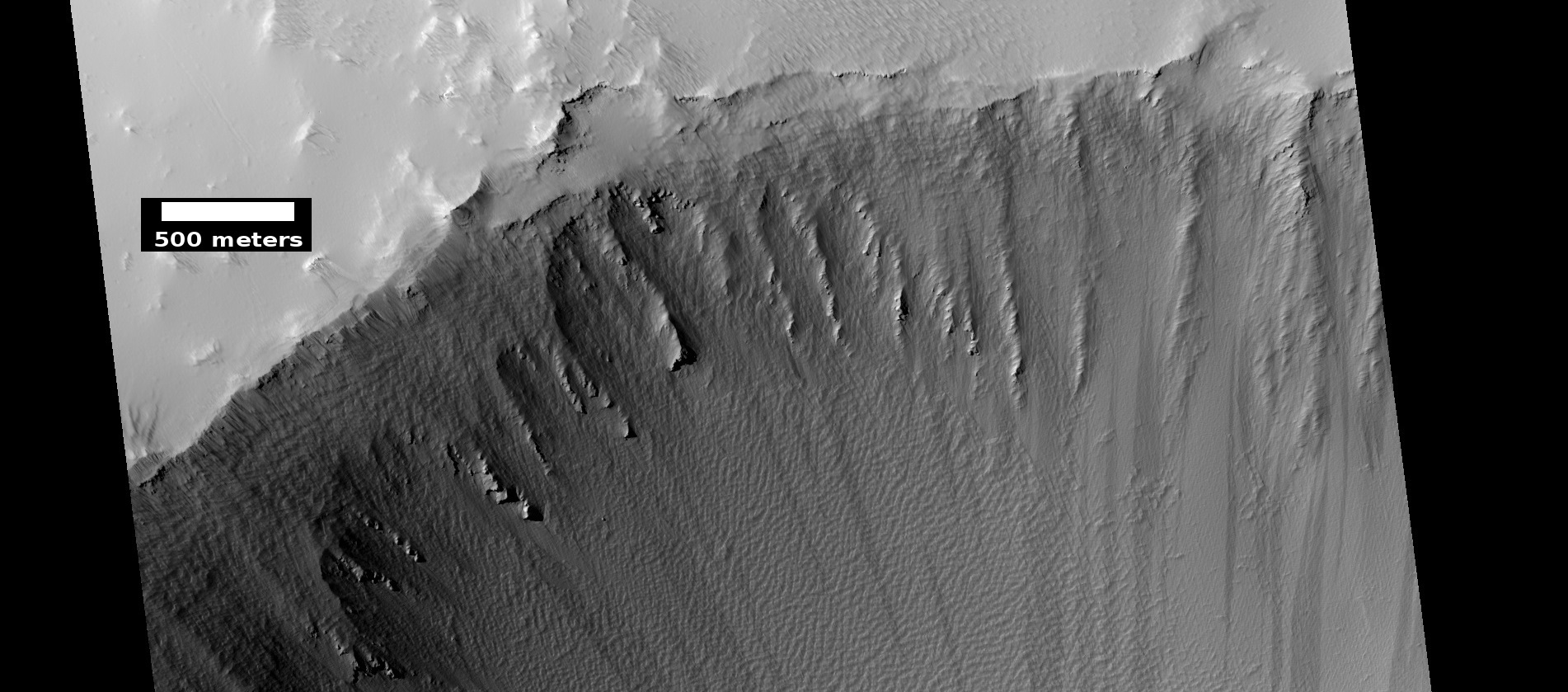 Wall of crater, Ulysses Patera in Tharsis quadrangle, as seen by hirise under HiWish program